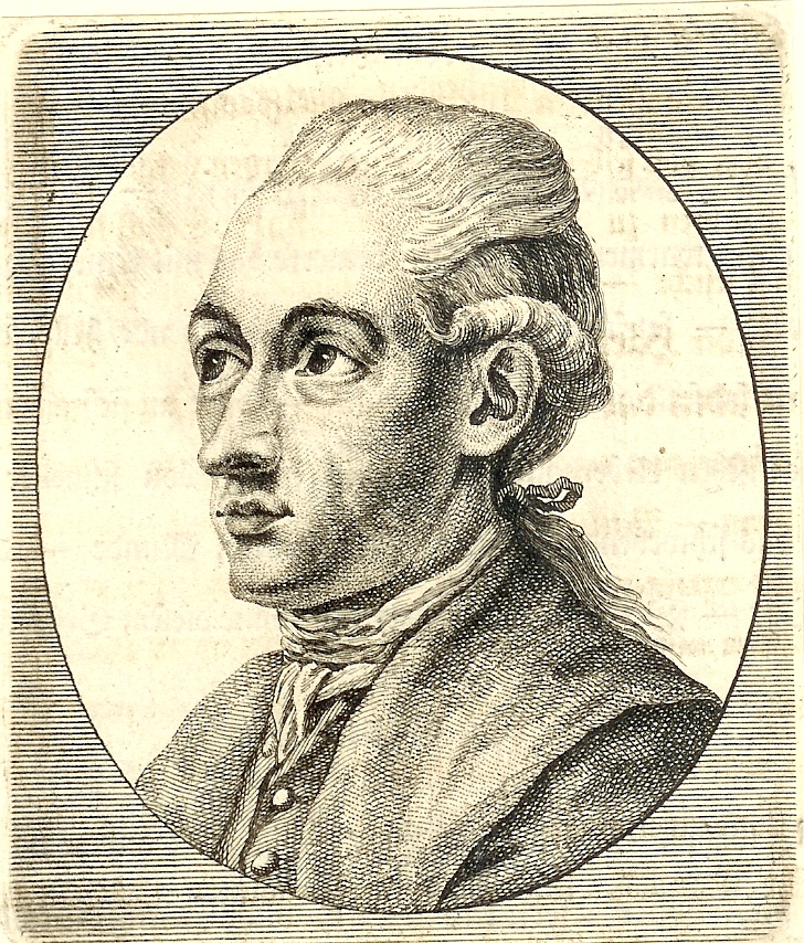 Kupfervignette mit abgewandelter Physiognomie von Michael Wachsmuth nach einer Zeichnung von Georg Friedrich Schmoll von 1774, Johann Wolfgang Goethe im grauen Kaputkragen mit Haarband im 3/4 Profil nach links auf der Lahnreise darstellend. Entnommen Lavaters Physiognomischen Fragmenten, Dritter Versuch, S. 224, Leipzig und Winterthur 1777